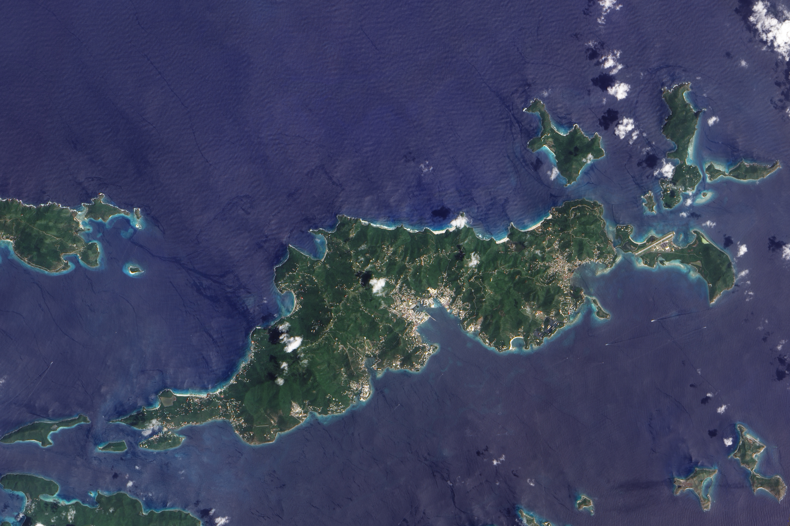 This true-colour image of Tortola and its smaller neighbours, Guana Island, Grand Camanoe, and Beef Island. The islands follow a roughly south-west-north-east trajectory. Gray-beige urbanized areas cling to the coast while Tortola’s interior remains mostly green, an arrangement driven by the islands’s topography. The biggest settlement fringes Road Bay. A straight line crossing Beef Island gives away the location of a small airport. Tortola’s carpet of green suggests a lush rainforest, but the island actually supports a patch of drought-resistant forest, in addition to plants accustomed to more water. Tortola’s climate and land surface are well suited to raising livestock, but tourism and financial services are the primary industries.